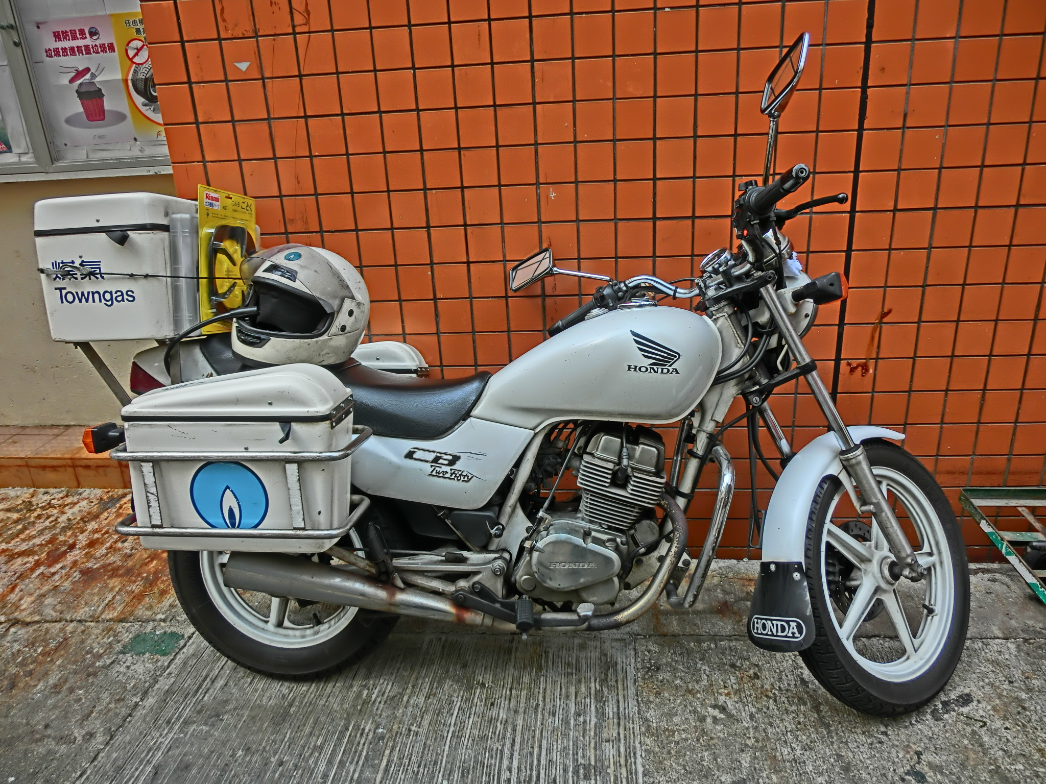 A Honda Motorcycle 中華煤氣 from Towngas is parking in 西環第三街, Third Street, Sai Ying Pun, Hong Kong